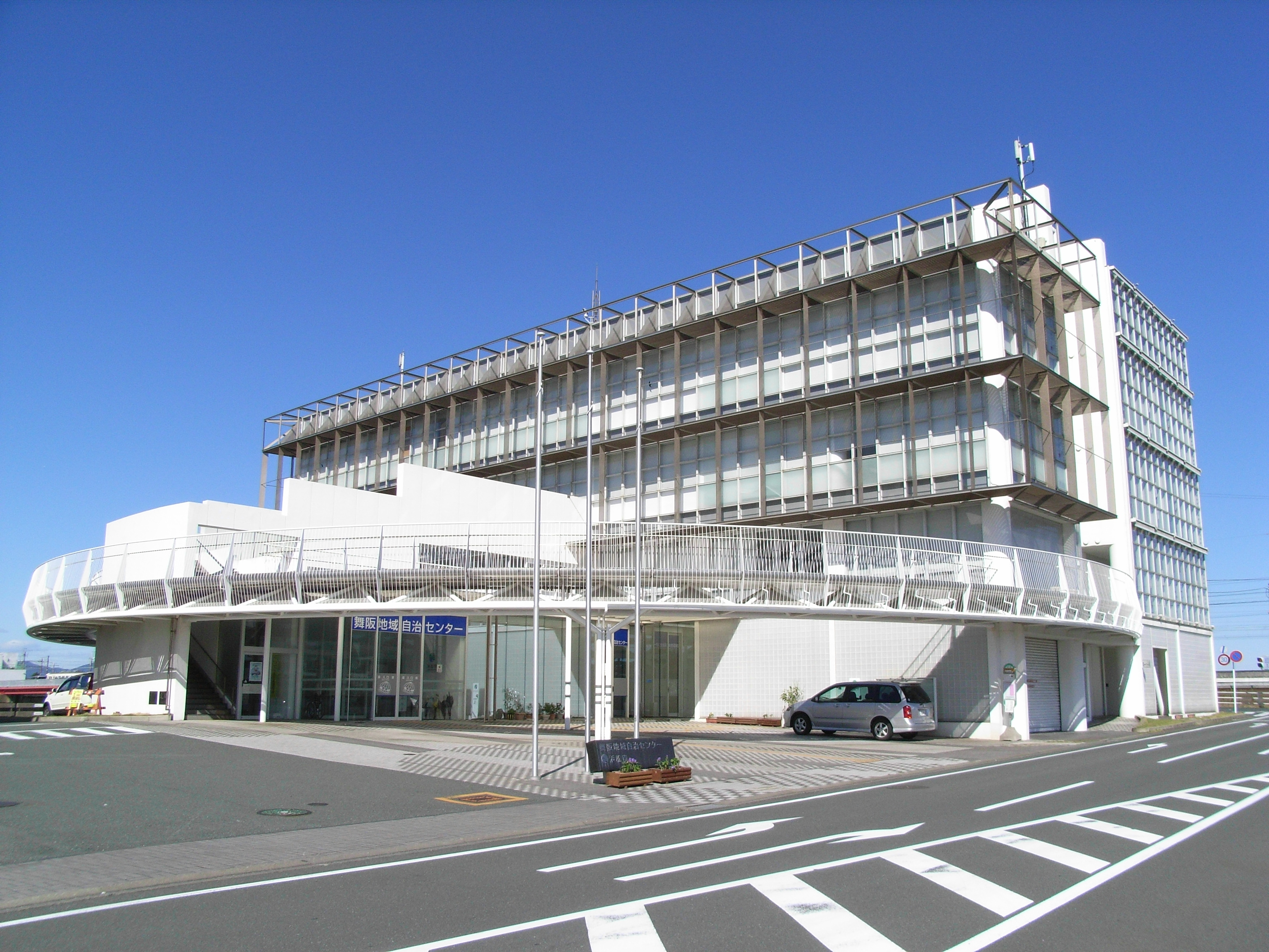 Hamamatsu City Nishi Ward Office Maisaka Local Service Center